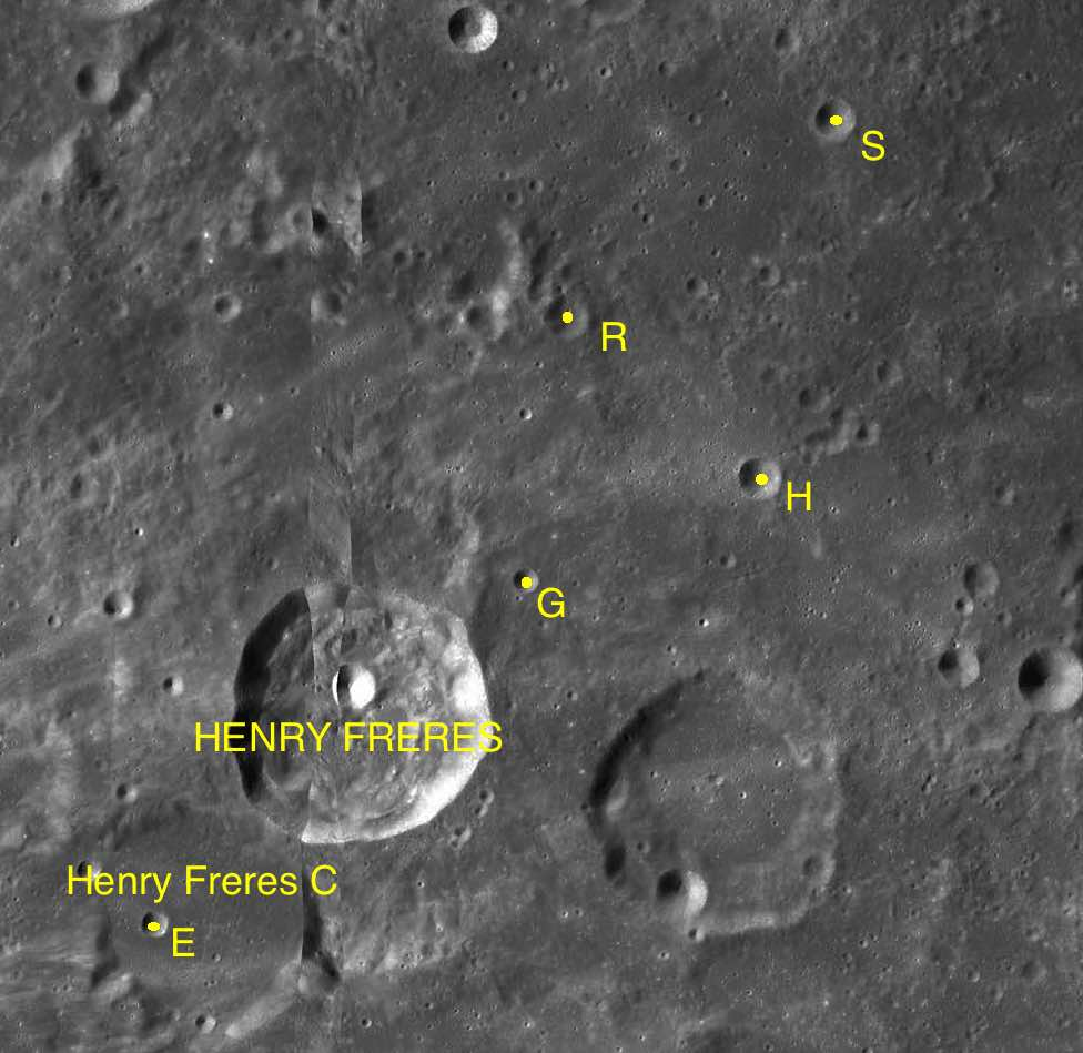 Part of the chart LAC-92 used for the presentation.